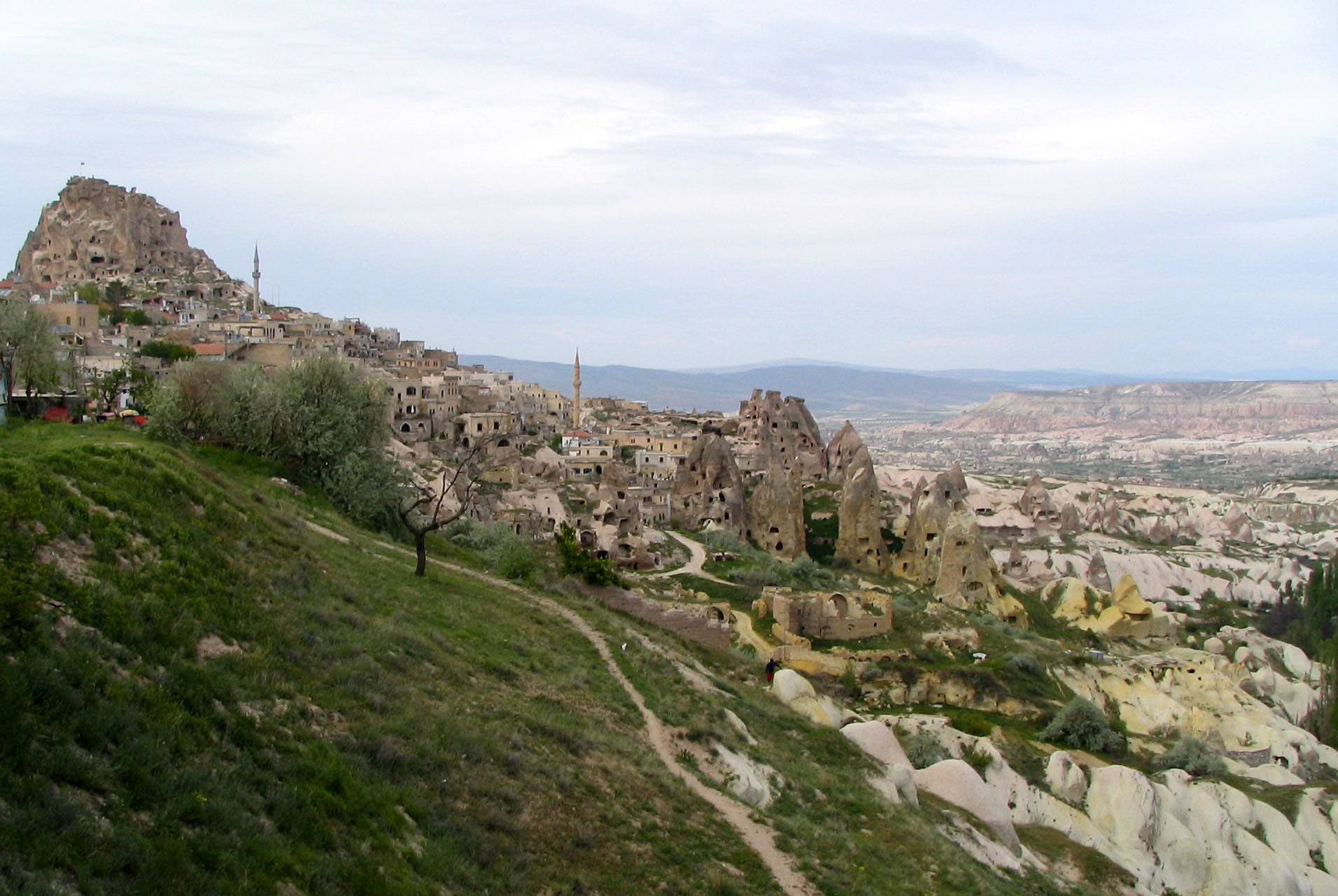 Uçhisar, Turkey. May 2006. Photo by Winstonza talk